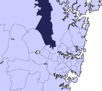 Locator Map Baulkham Hills lga sydney.png Based on Image:Ku-ring-gai sydney.png by User:Randwicked.